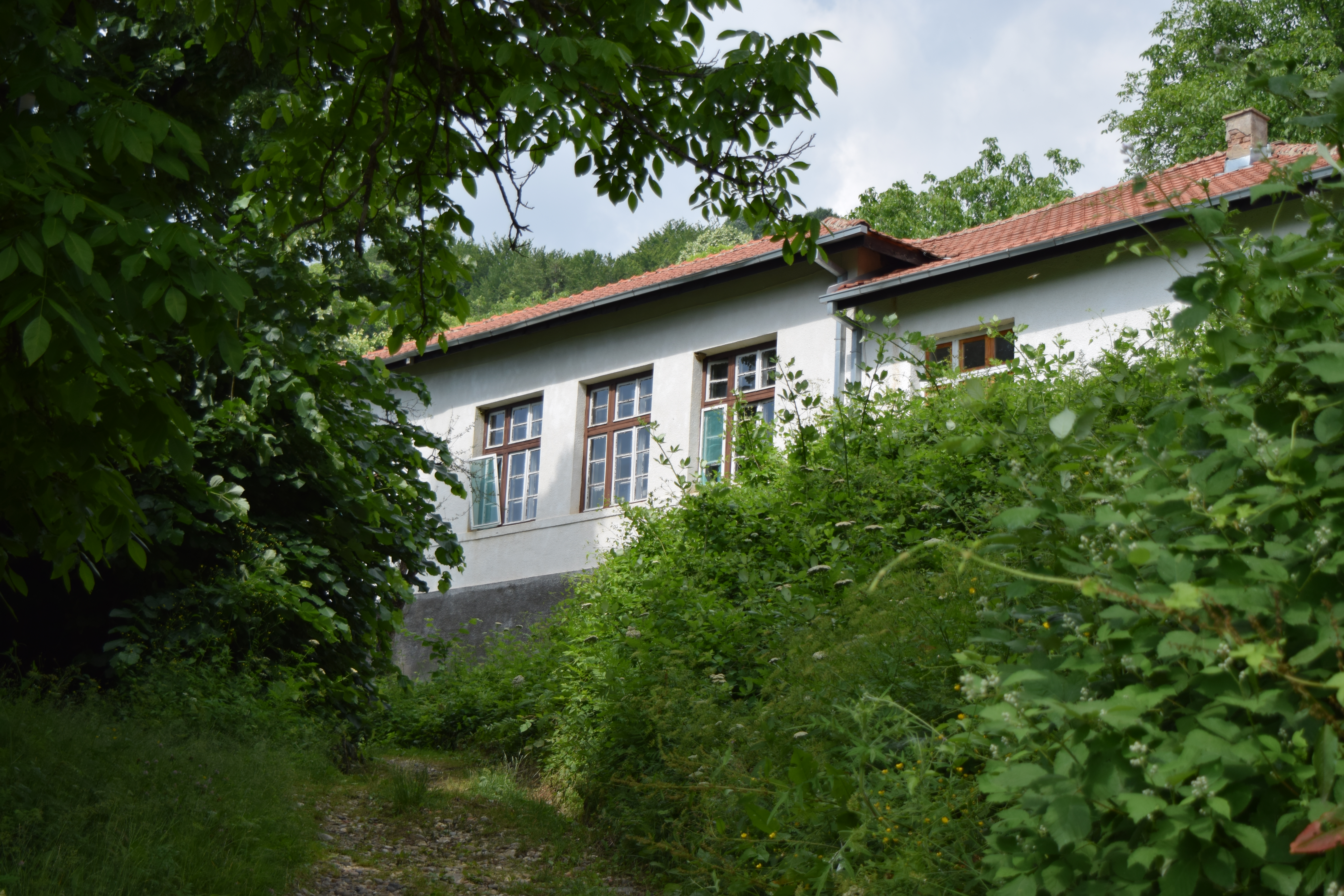 View of the mountain hut in the village Papradište